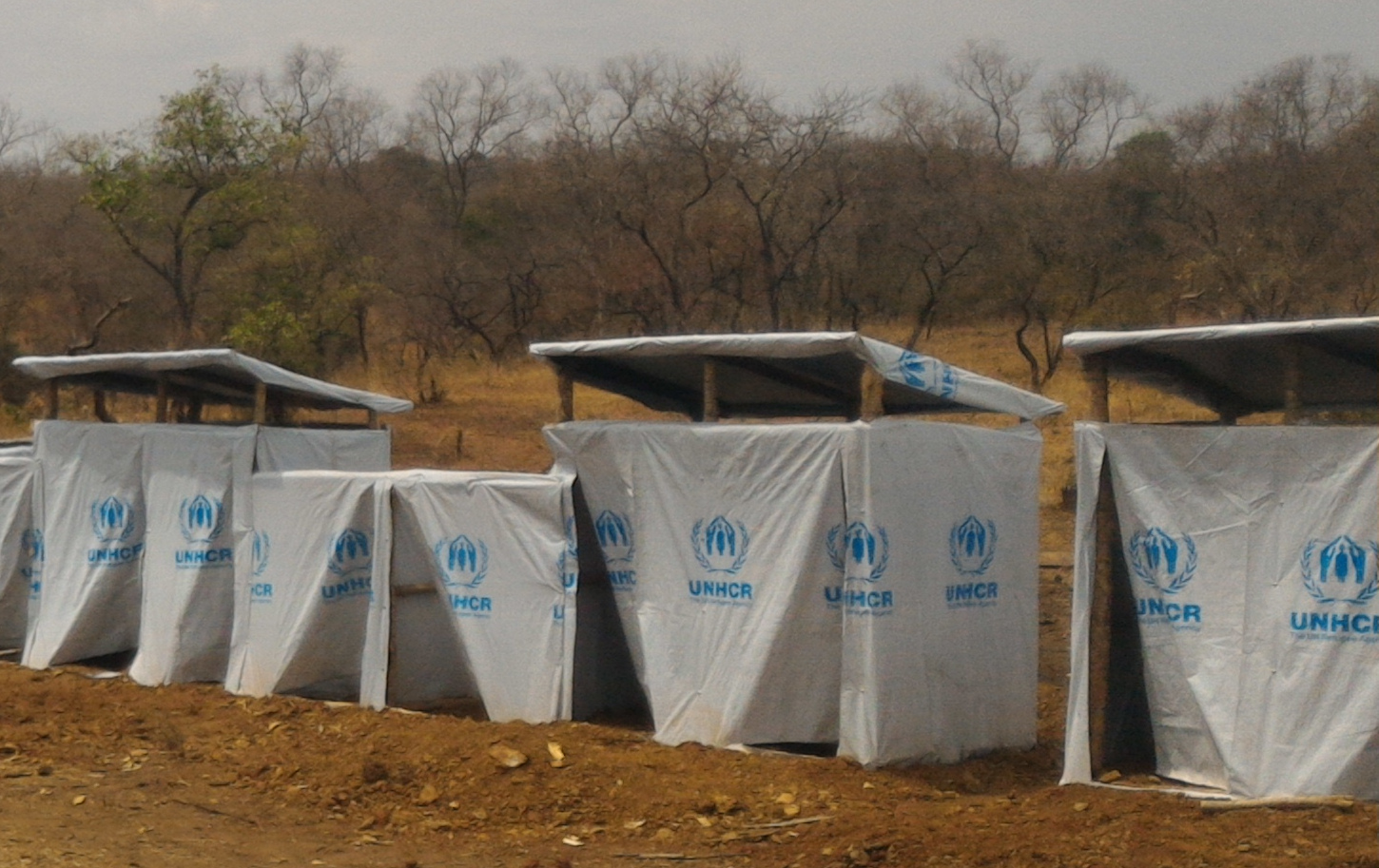 Emergency pit latrines with bathing shelters build in the Bidibidi refugee settlement in northern Uganda (2017)